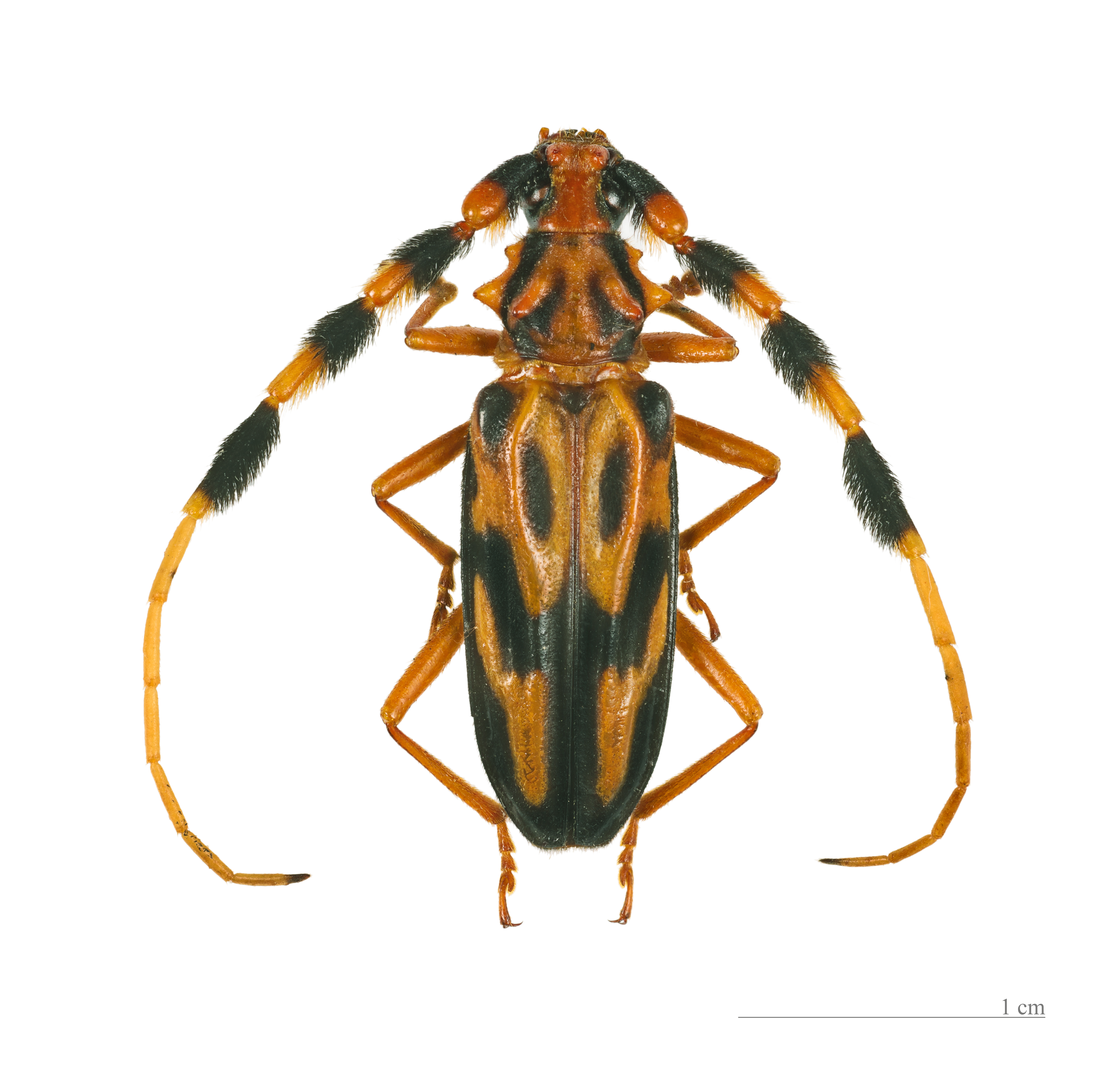 ♀ - Dorsal side Locality : Cacao, Crique Baguot, French Guiana.